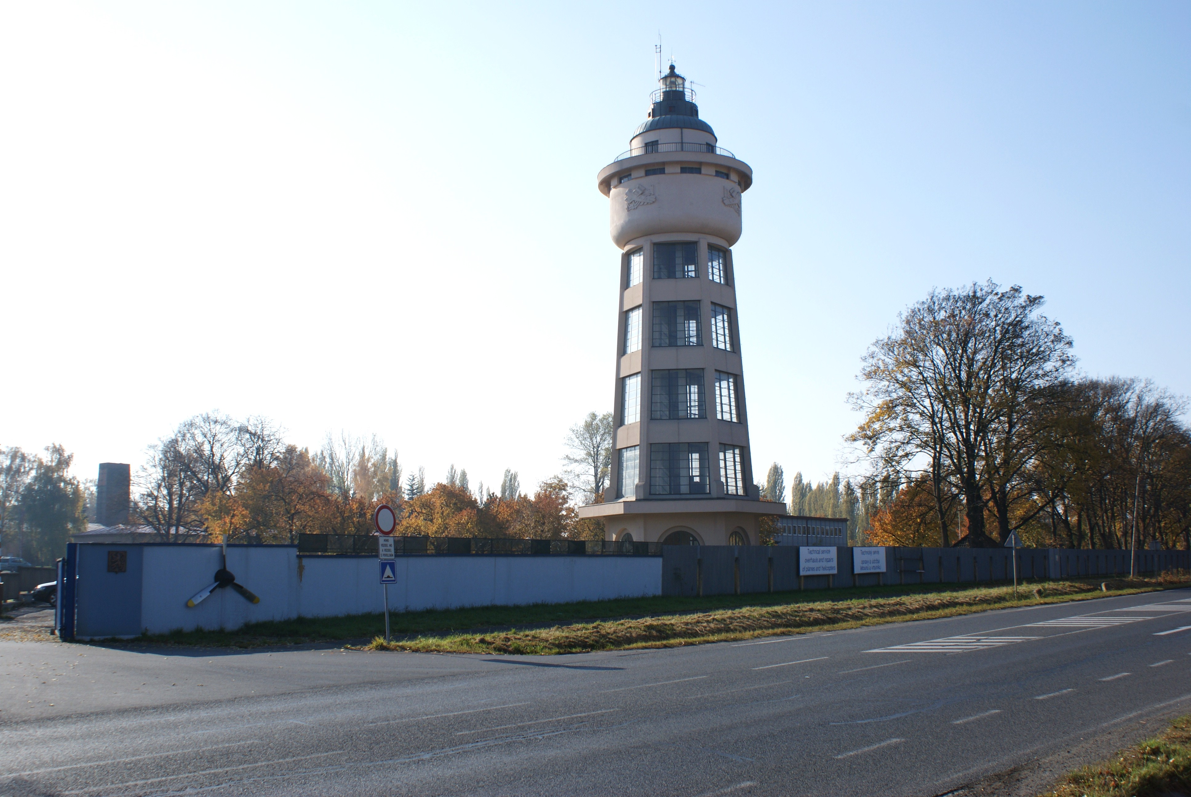 Otakar Novotný: The water tower in the Kbely airfield premise, Prague Česky: Otakar Novotný: Maják a vodojem v areálu kbelského letiště